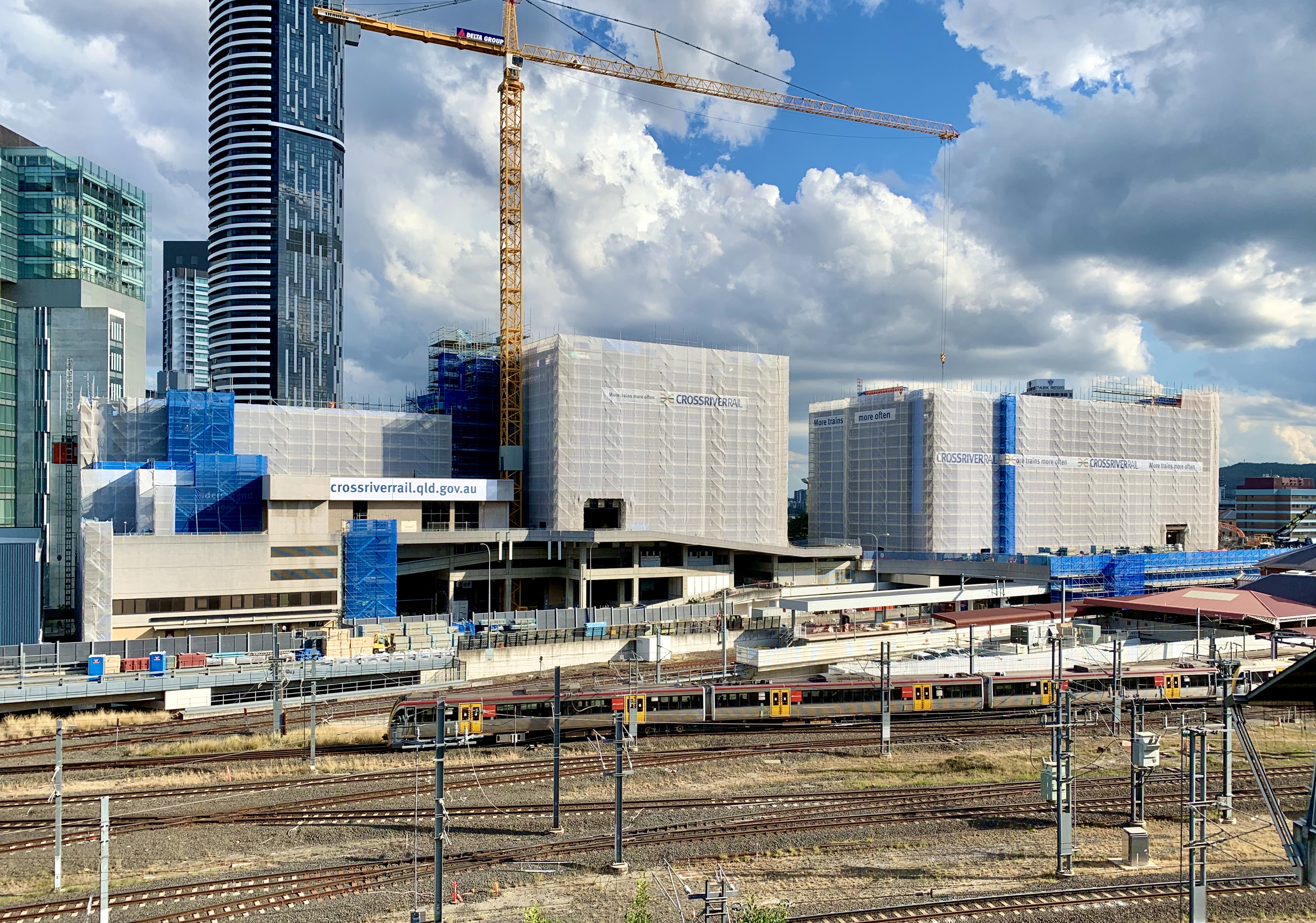 Demolition of Brisbane Transit Centre seen from Wickham Park, May 2020